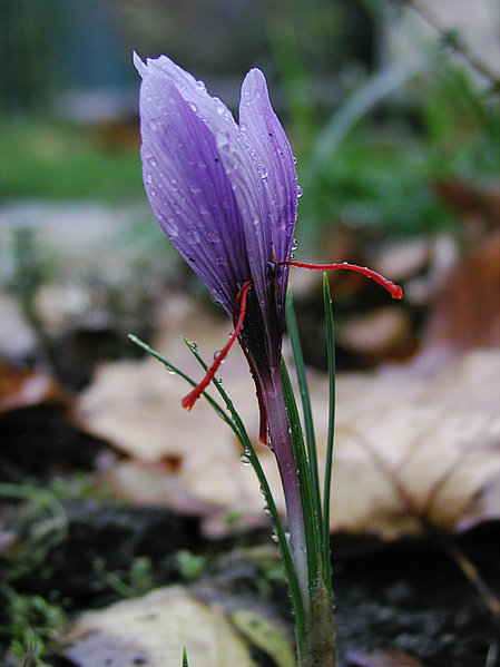 Crocus sativus plant, Peißnitzinsel, Germany